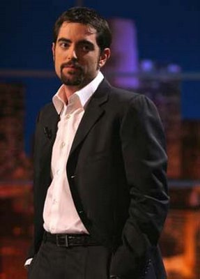 Dani Mateo plays a piece of stand-up comedy in 'El Club de la Comedia' (Spanish 'Comedy Club')